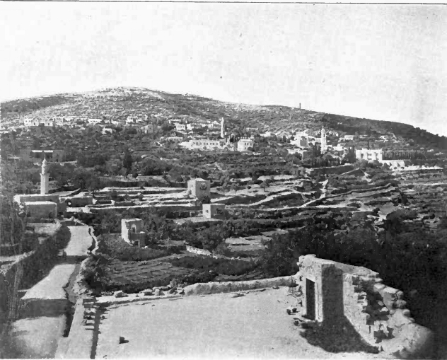 Ein karem 1906